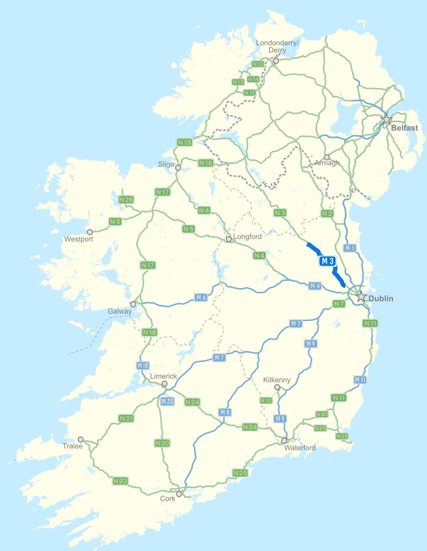 Map of M3 motorway (Ireland) with M3 blue bolded, Nxx routes in green and Mxx routes in blue